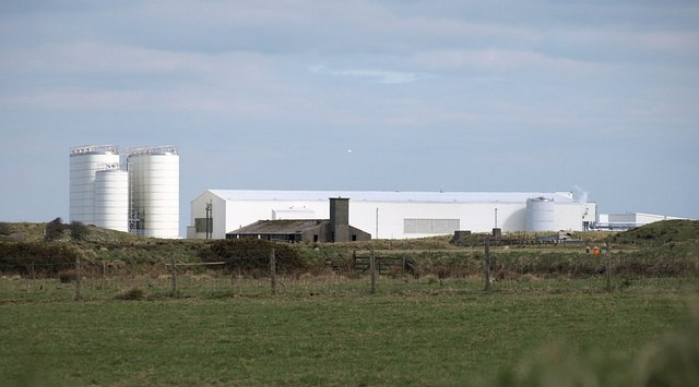 Davidstow Creamery, near to Trewassa, Cornwall, Great Britain. Another view of SX1386 : Davidstow Creamery , this time of the northwestern part of the buildings, seen from the same spot on the A39 as SX1386 : Davidstow Creamery .